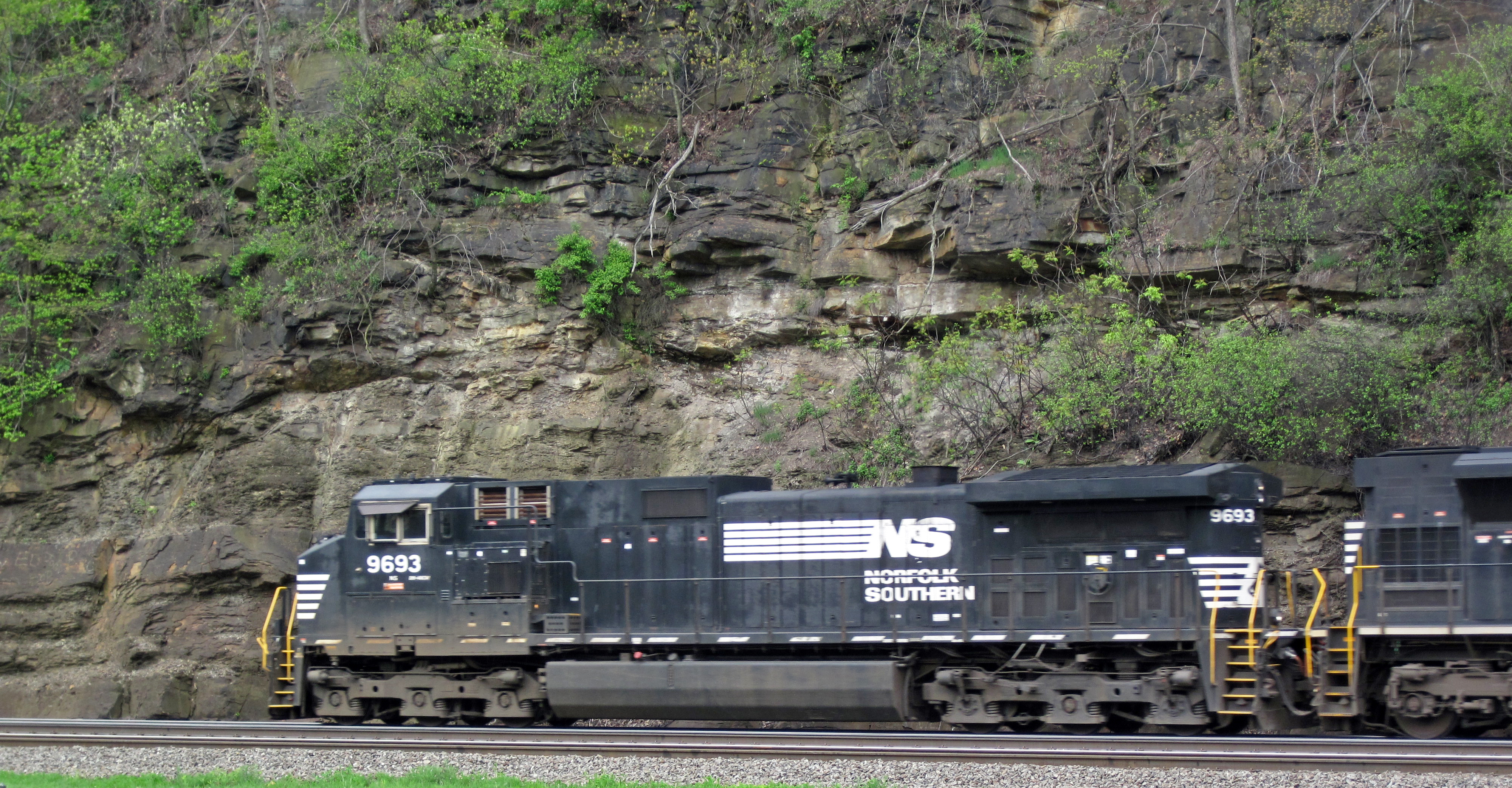 This is a westbound Norfolk Southern Railway freight train in the late morning of 10 May 2016 at Horseshoe Curve, west of Altoona, Pennsylvania, USA. The lead unit is NS # 9693, a General Electric CW40-9. The rocks in the Horseshoe Curve railroad cut (Kittanning Point; Kittanning Mountain) are fluvial sandstones of the Rockwell Formation (Famennian Stage to Kinderhookian Stage, upper Upper Devonian to lower Lower Mississippian).